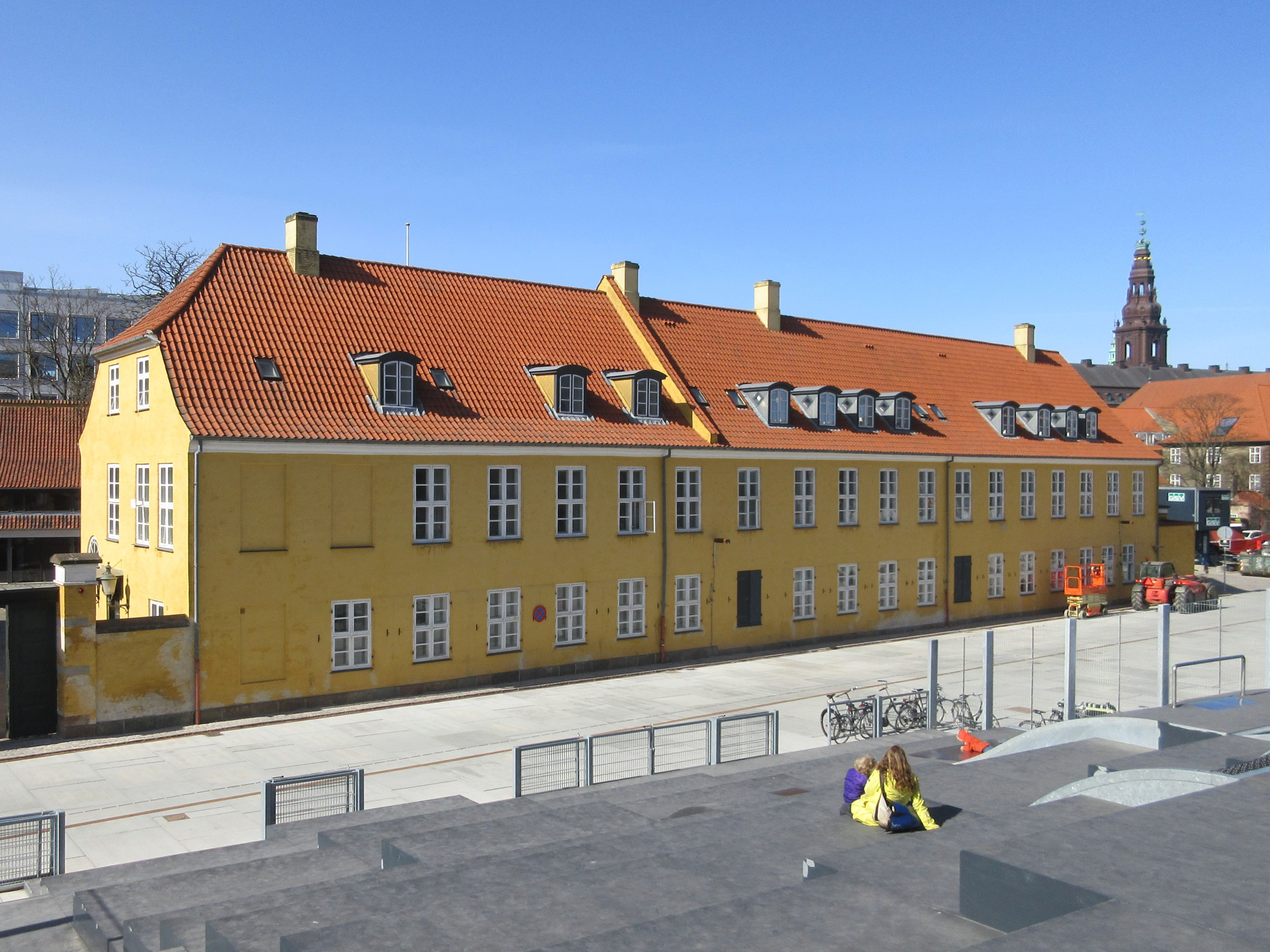 Bryghuspladsen 1 in Copenhagen, Denmark